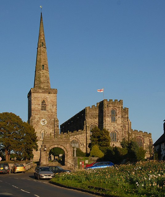 St. Mary's , Astbury, near to Astbury, Cheshire, Great Britain. St. Mary's church, Astbury